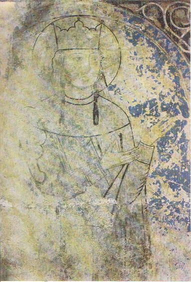 A fresco depicting Queen Tamar of Georgia from the Kintsvisi monastery